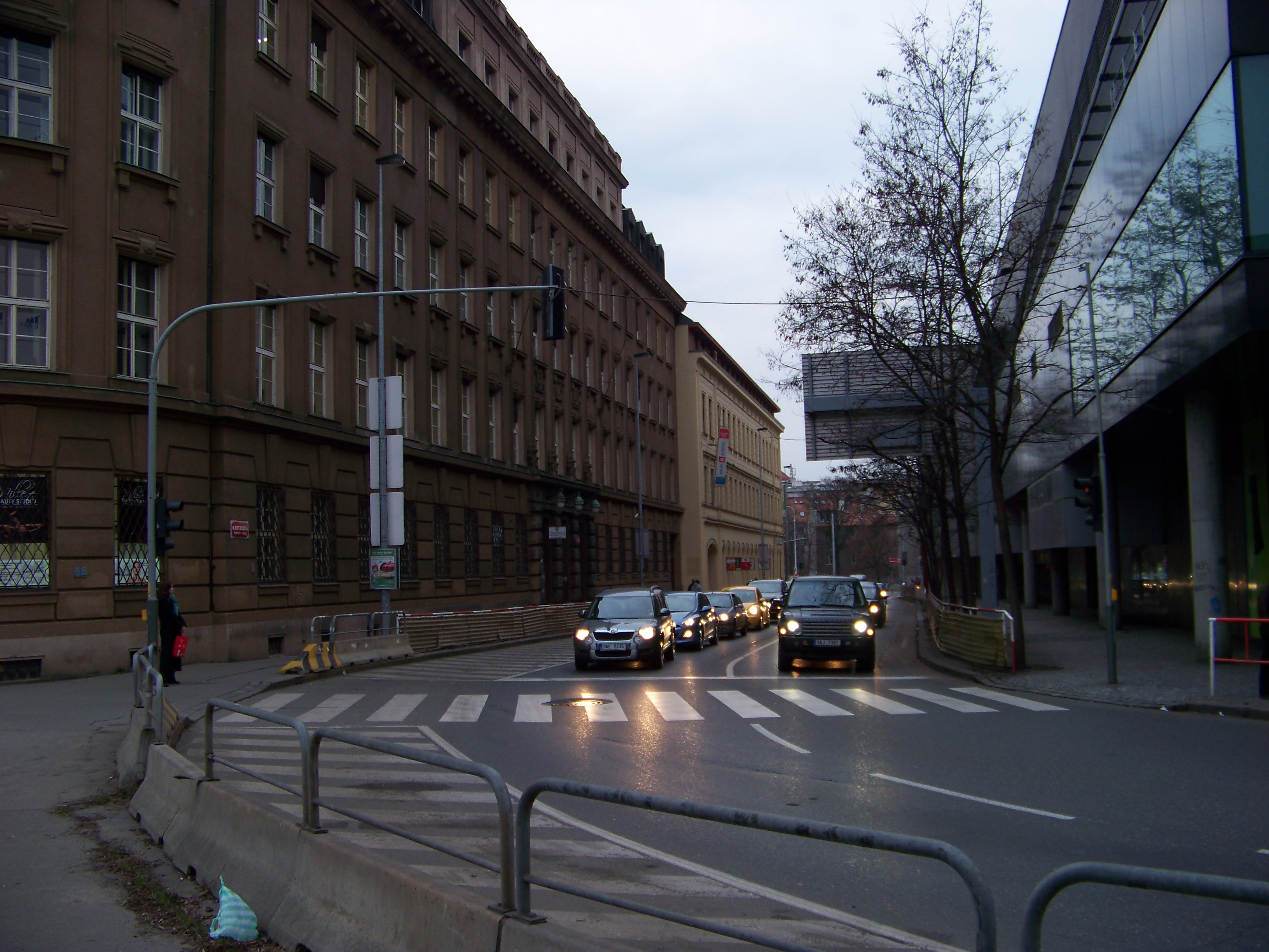 Prague-Smíchov, Czech Republic. Kartouzská 200/4, 18/2. - Google Maps - Google Earth